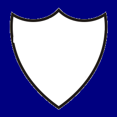 Corps badge for 2nd division, XXIII corps Union Army (American Civil War)